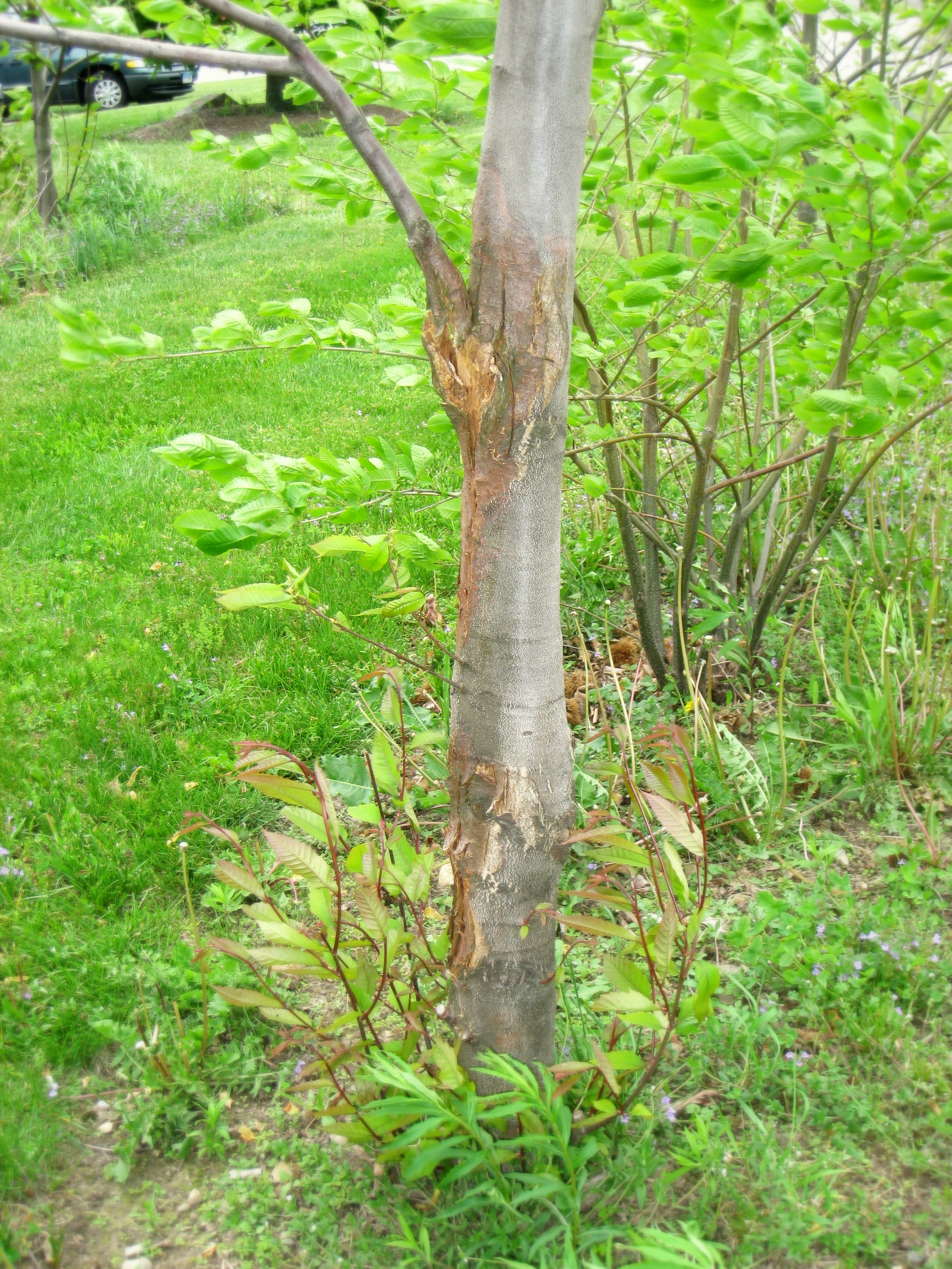 Chestnut blight. Experimental trials of resistant Castanea dentata by the American Chestnut Foundation at Tower Hill Botanic Garden, Boylston, Massachusetts, USA.